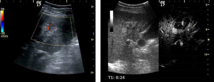 Ultrasonographic follow-up of incompletely treated hepatocellular carcinoma. See Ultrasonography of liver tumors.